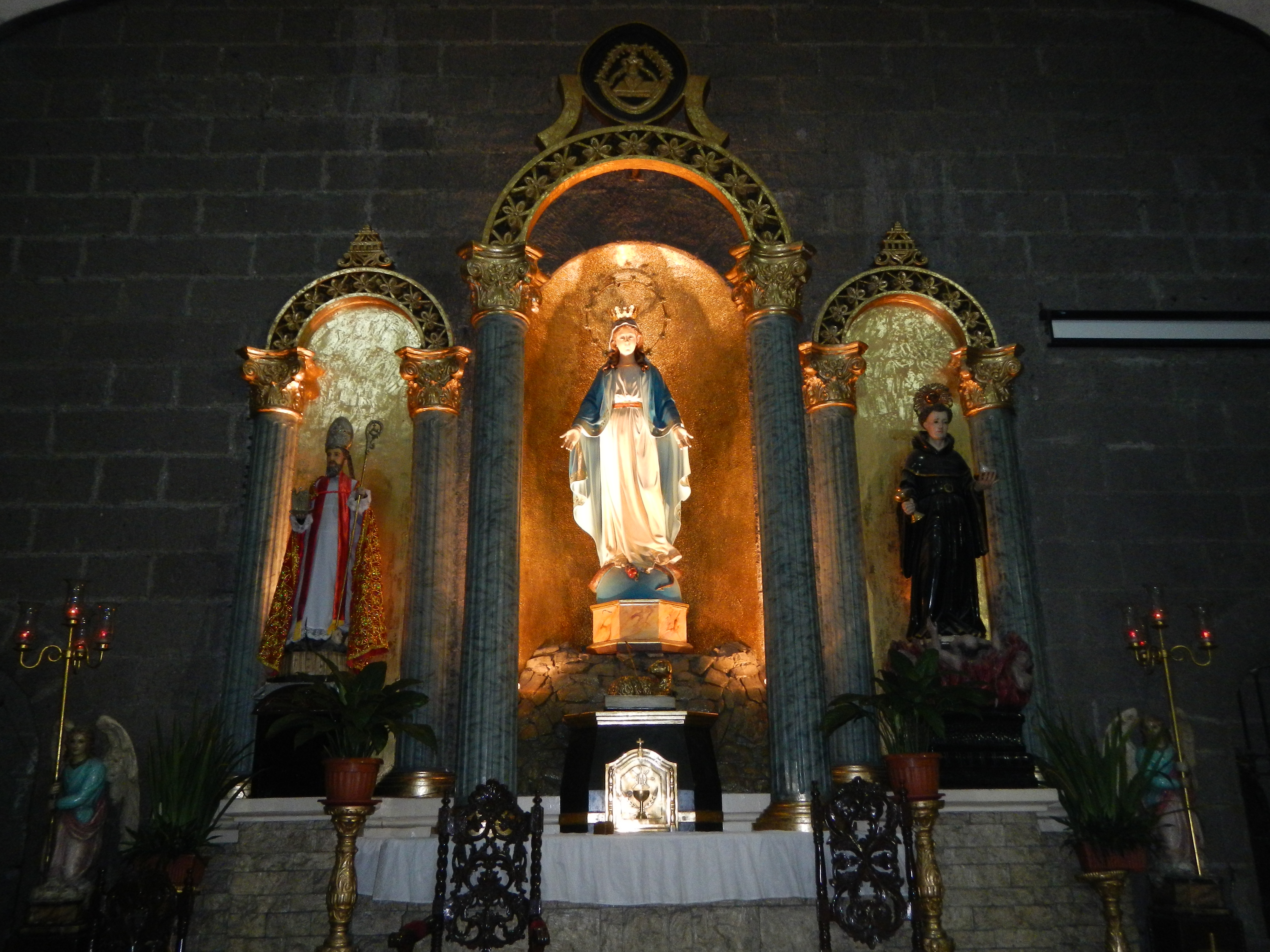 1601 Nuestra Señora de Gracia Church[1] (Church and Monastery of Guadalupe - 7440 Bernardino St Guadalupe Viejo, Makati City - Parish Priest : Fr. Andres D. Rivera, Jr. suceeding Fr. Jose L. Gonzales, OSA Parochial Vicar: Fr. Alfredo B. Jubac, OSA Attached Priests: Fr. Romanico O. Cañon, OSA Fr. Bernardo B. Coleco, OSA Fr. Noli P. Detoyato, OSA) is a baroque Roman Catholic church located in one of the oldest parishes in Makati City, Philippines. The parish church and its adjacent monastery, founded in 1601 and finished contruction in 1629 are currently administered by the Augustinian friars of the Province of Sto. Niño de Cebu. Its neighborhood include the Loyola Memorial Chapel, the Laperal compound, and the Guadalupe Minor Seminary. The church is a mixture of different architectures due in part to the fact that it had to be partially rebuilt and restored once in 1882 after an earthquake, and again in 1894 after fighting between the US and Filipinos. [2][3][4] [5]Coordinates: 14°33'57"N 121°2'35"E Vicariate of Our Lady of Guadalupe[6]Roman Catholic Archdiocese of Manila